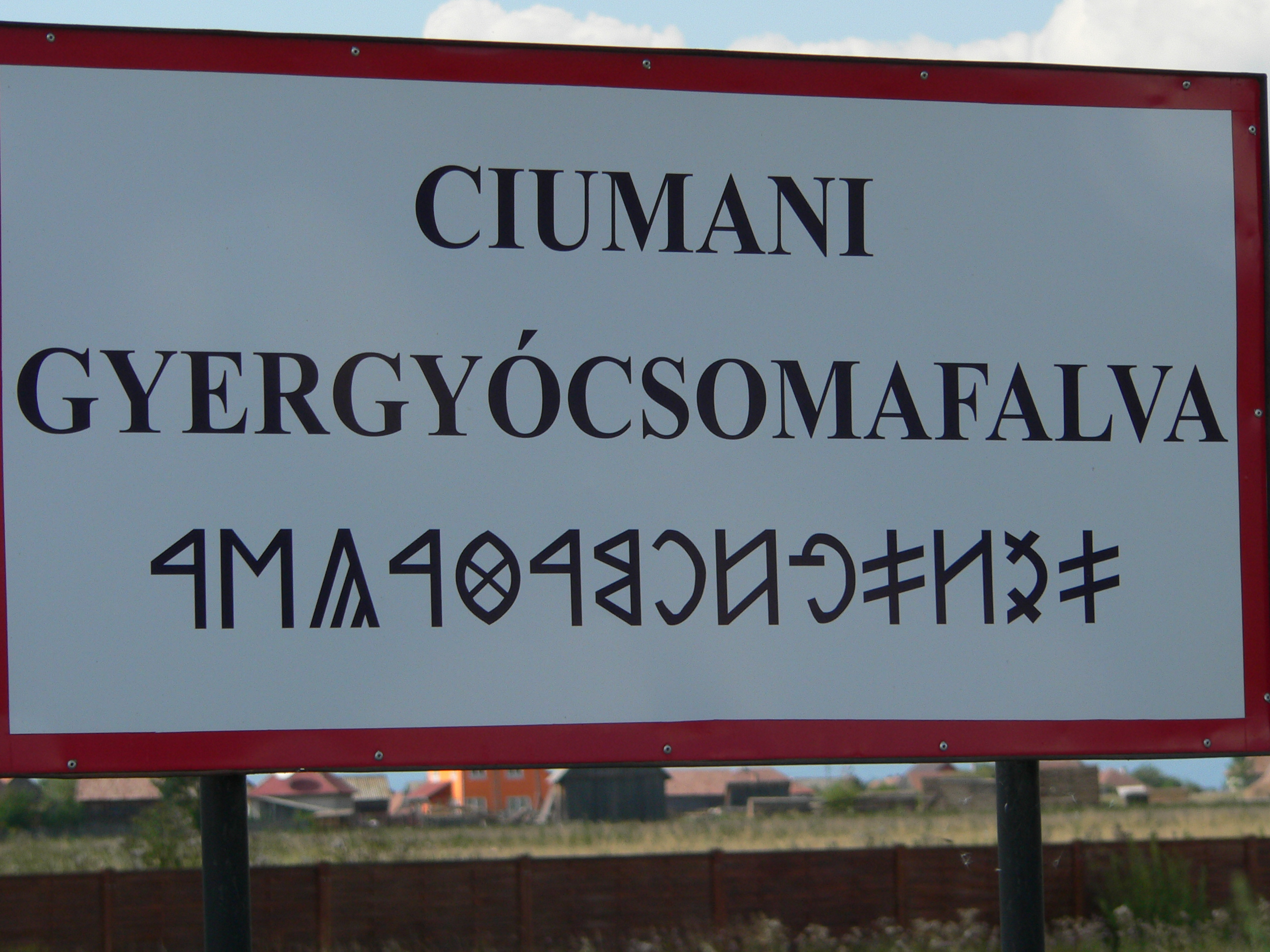 Ciumani place name sign